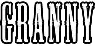 This is the logo of the horror game, Granny, and is required on the Wikipedia page of the game.